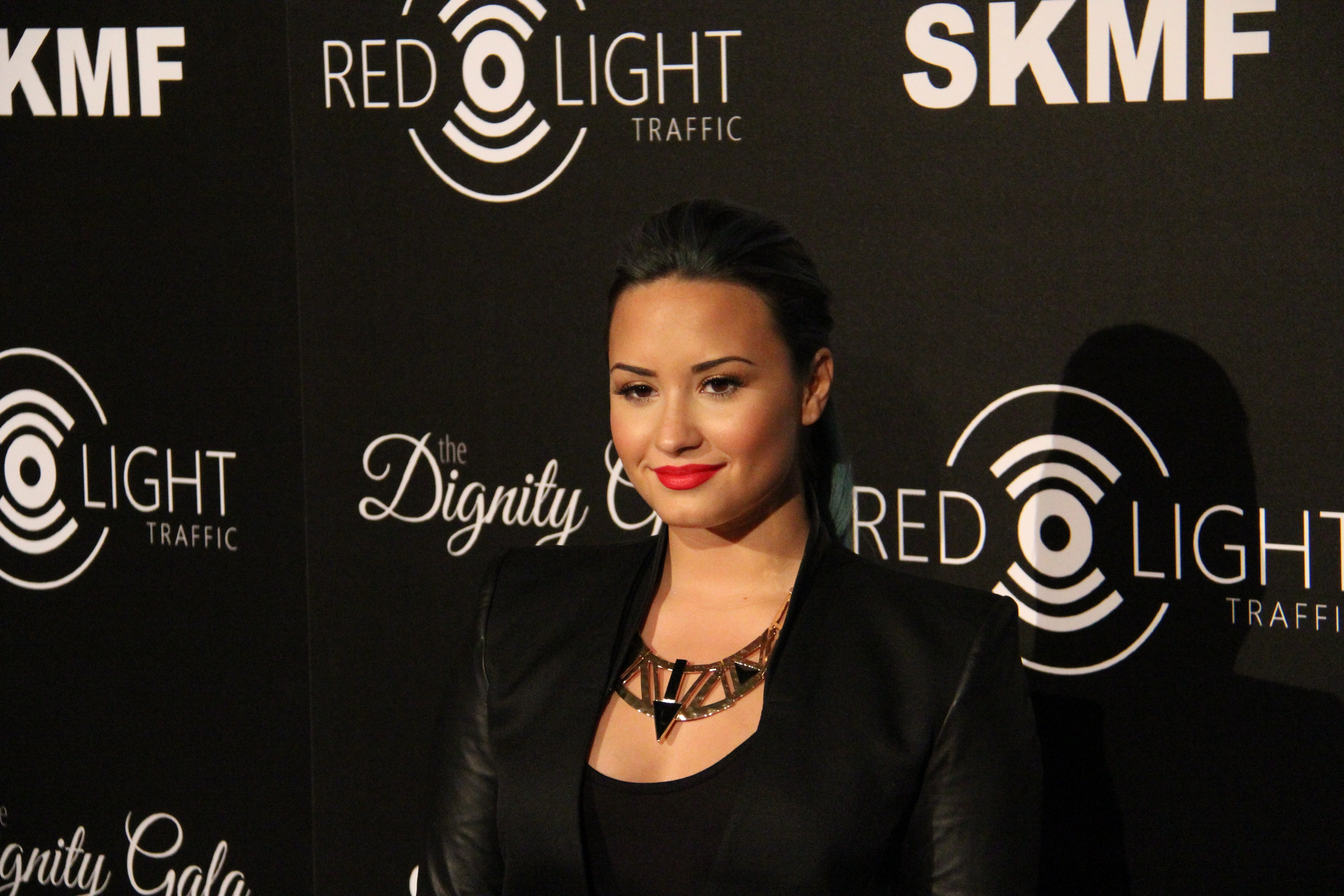 Demi Lovato ("The X Factor") at Redlight Traffic's inaugural Dignity Gala (Michelle Tiu / Neon Tommy)